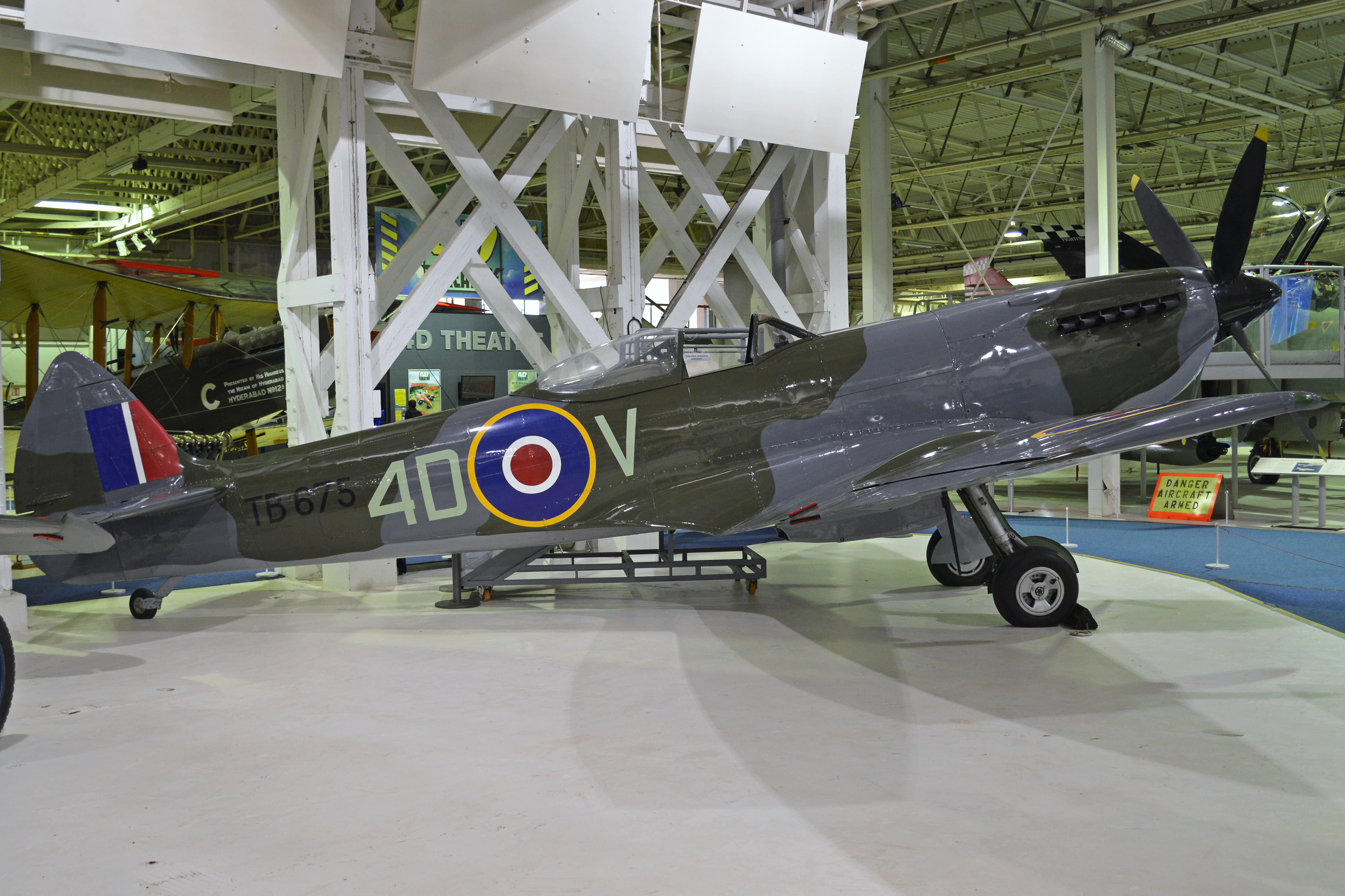 c/n CBAF.IX4651. Actual British Military serial RW393. Was on display outside RAF Turnhouse (Edinburgh) between 1957 and 1989. After restoration she went on display at Cosford from 1995 to 2006, after which she has had a nomadic life between exhibitions at Hendon and Cosford and storage at RAF Stafford. Seen being used for the ‘Sit in a Spitfire’ attraction at the RAF Museum, Hendon, London, UK. 28th May 2016